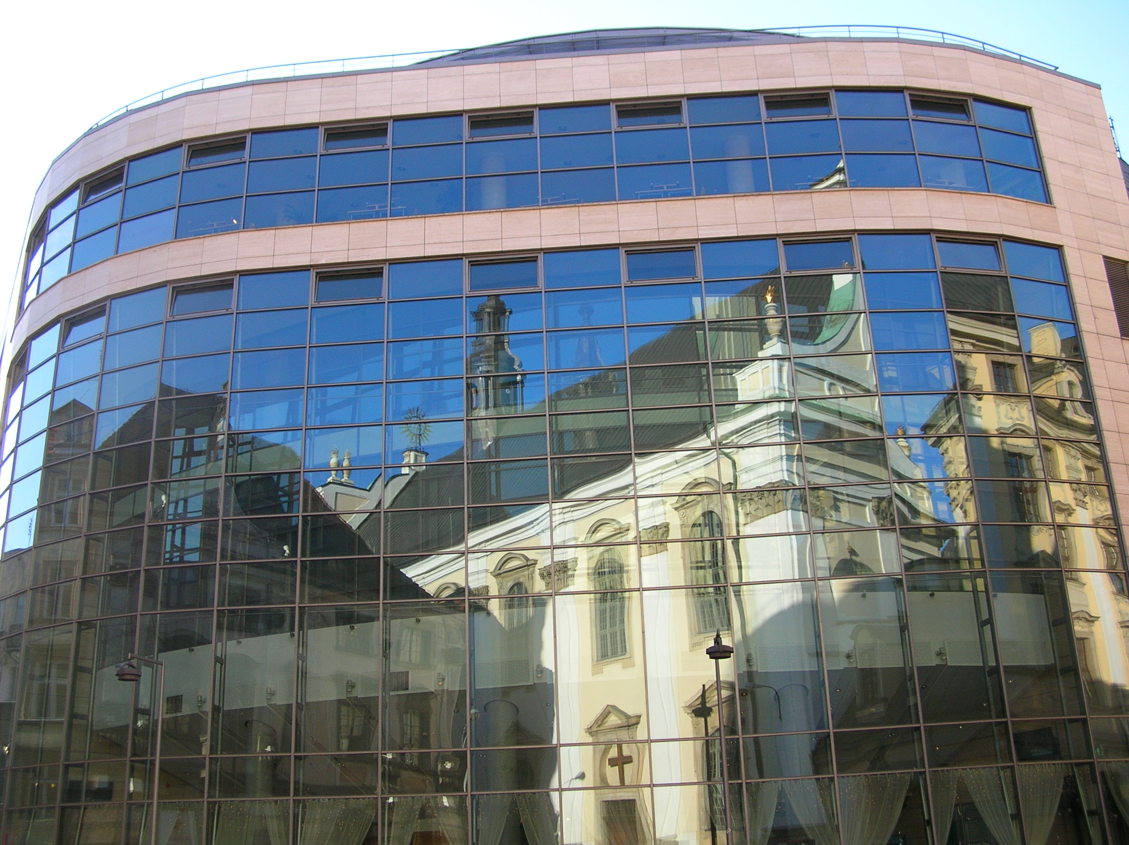 Wroclaw University, faculty of law and the university church in mirror